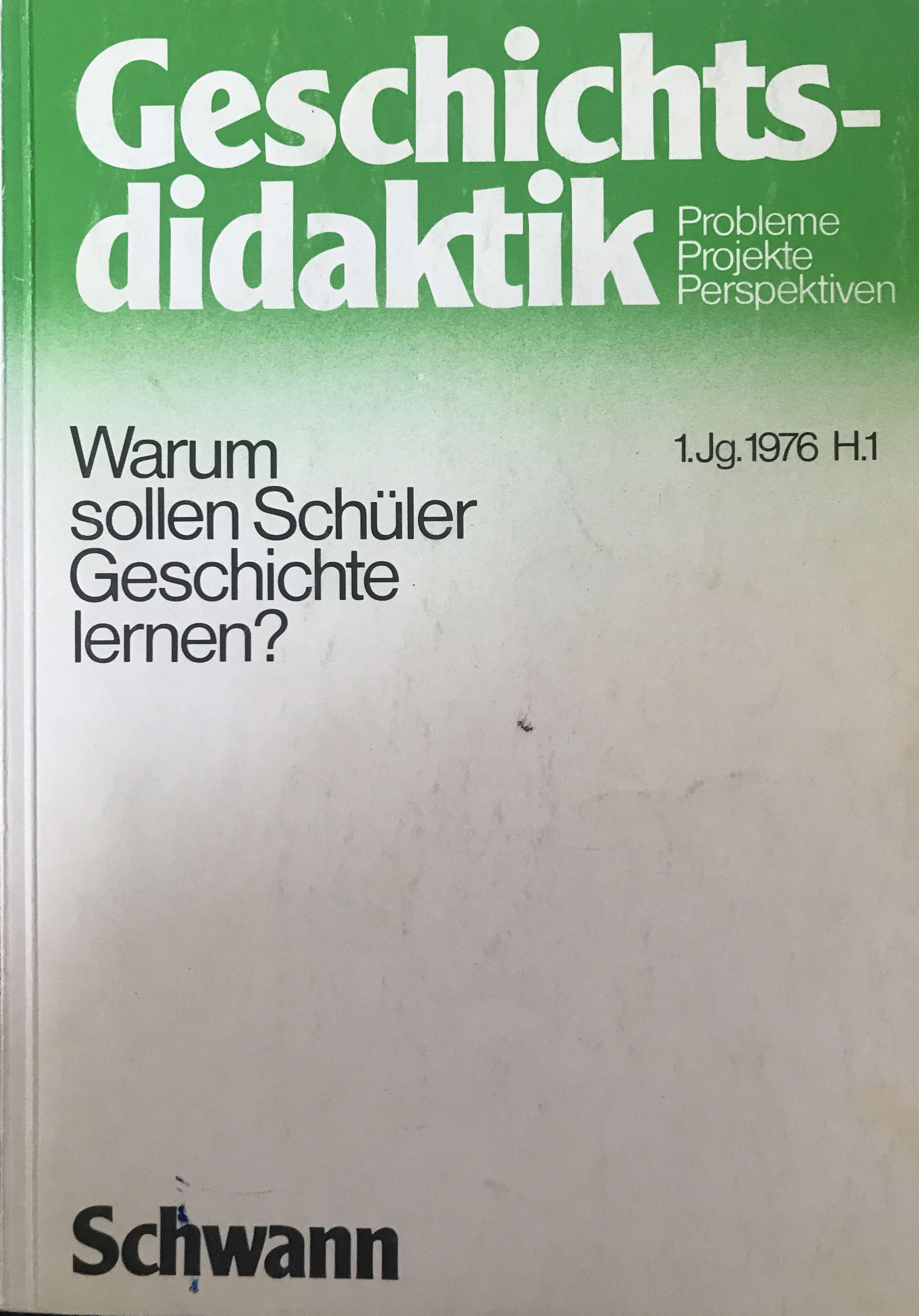 German academic journal 1976-1987